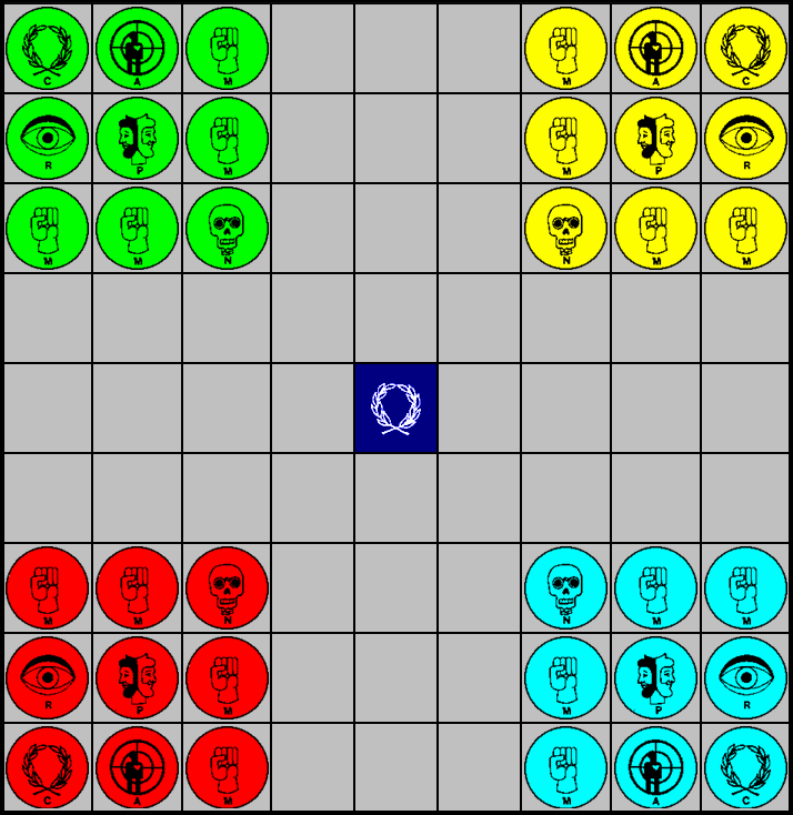 Board of Djambi, with the pieces in their start position. Each piece is identified by the first letter of its name as well as a symbol.